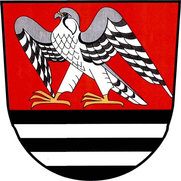 Municipal coat of arms of Sokoleč village, Nymburk District, Czech Republic.